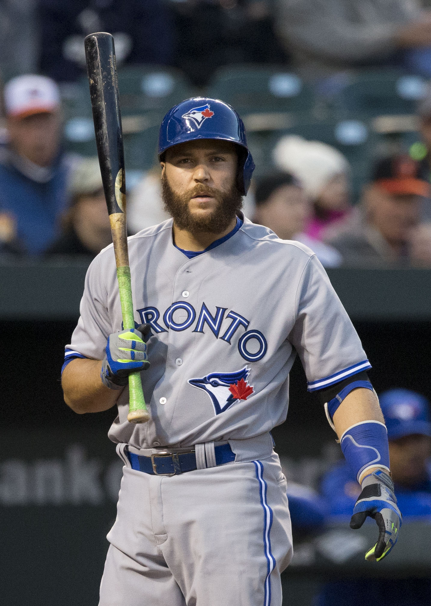 Blue Jays at Orioles 04/11/15